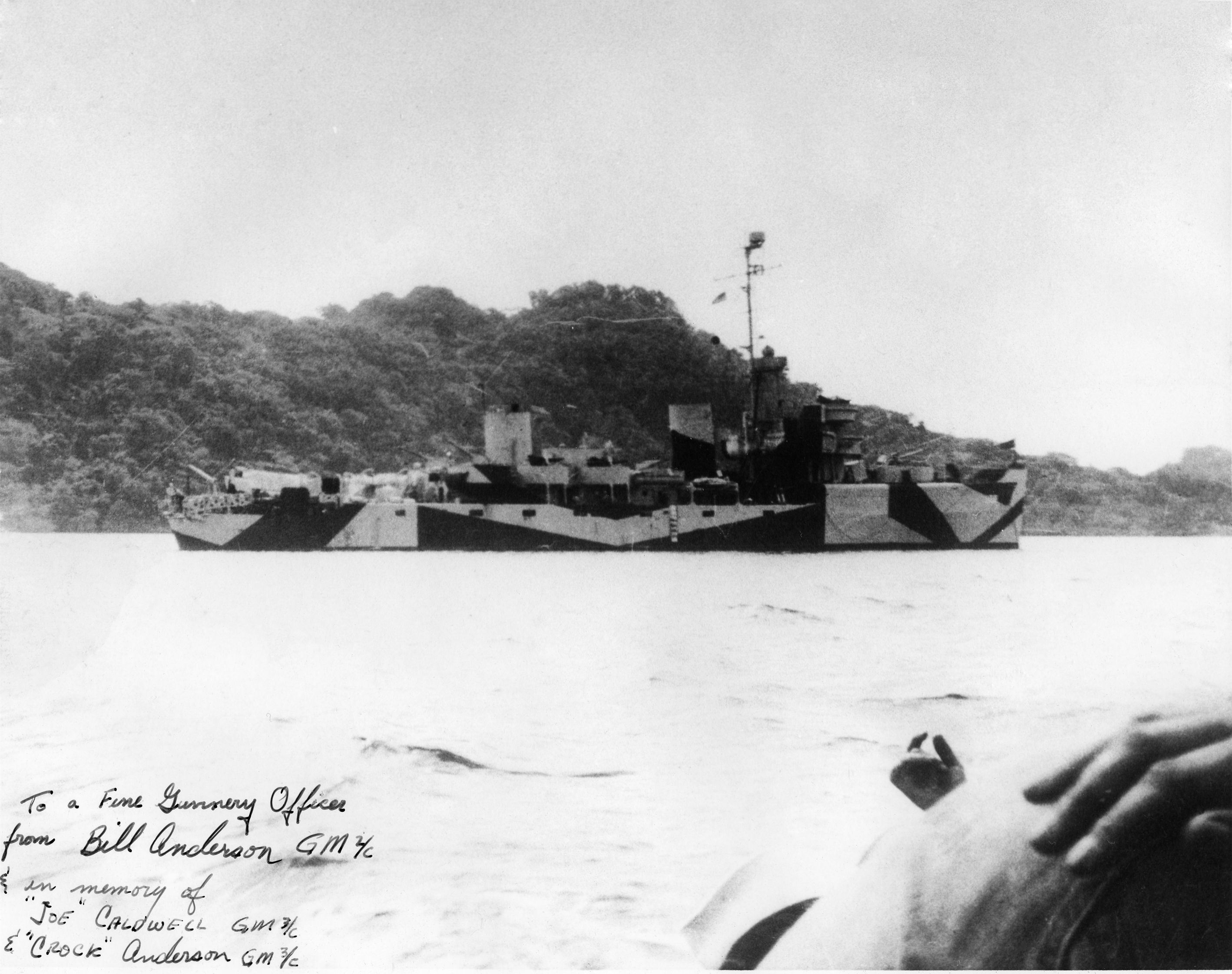 Picture of the USS Velocity during WWII. Taken by LCDR Roland Blandford, Gunnery Officer.